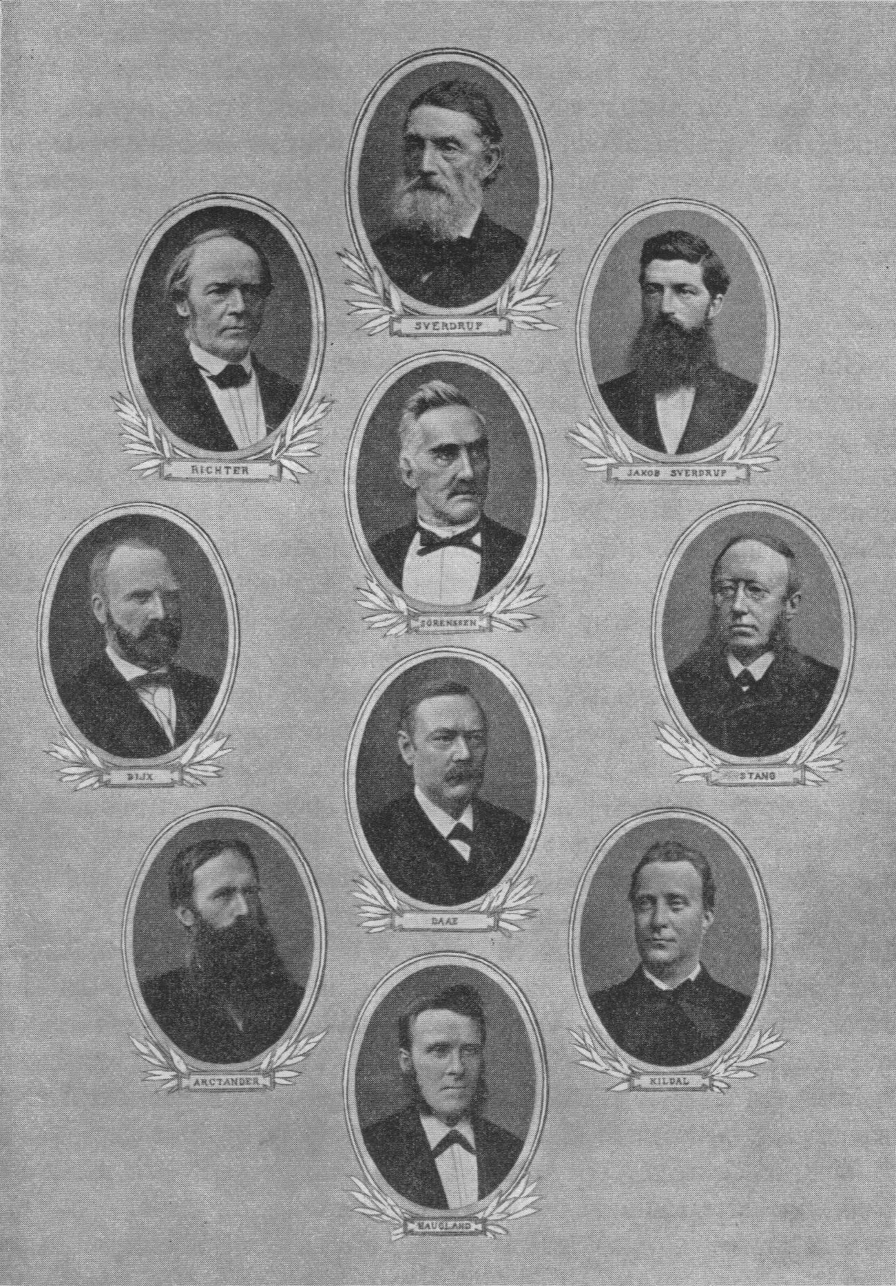 Johan Sverdrup's cabinet.